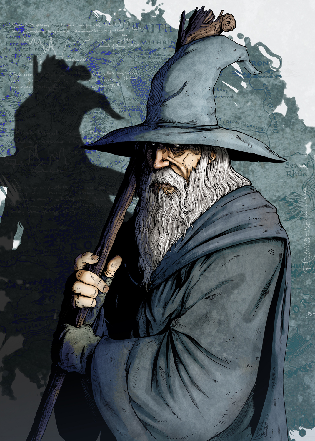 Gandalf the Grey (artwork by Nidoart )